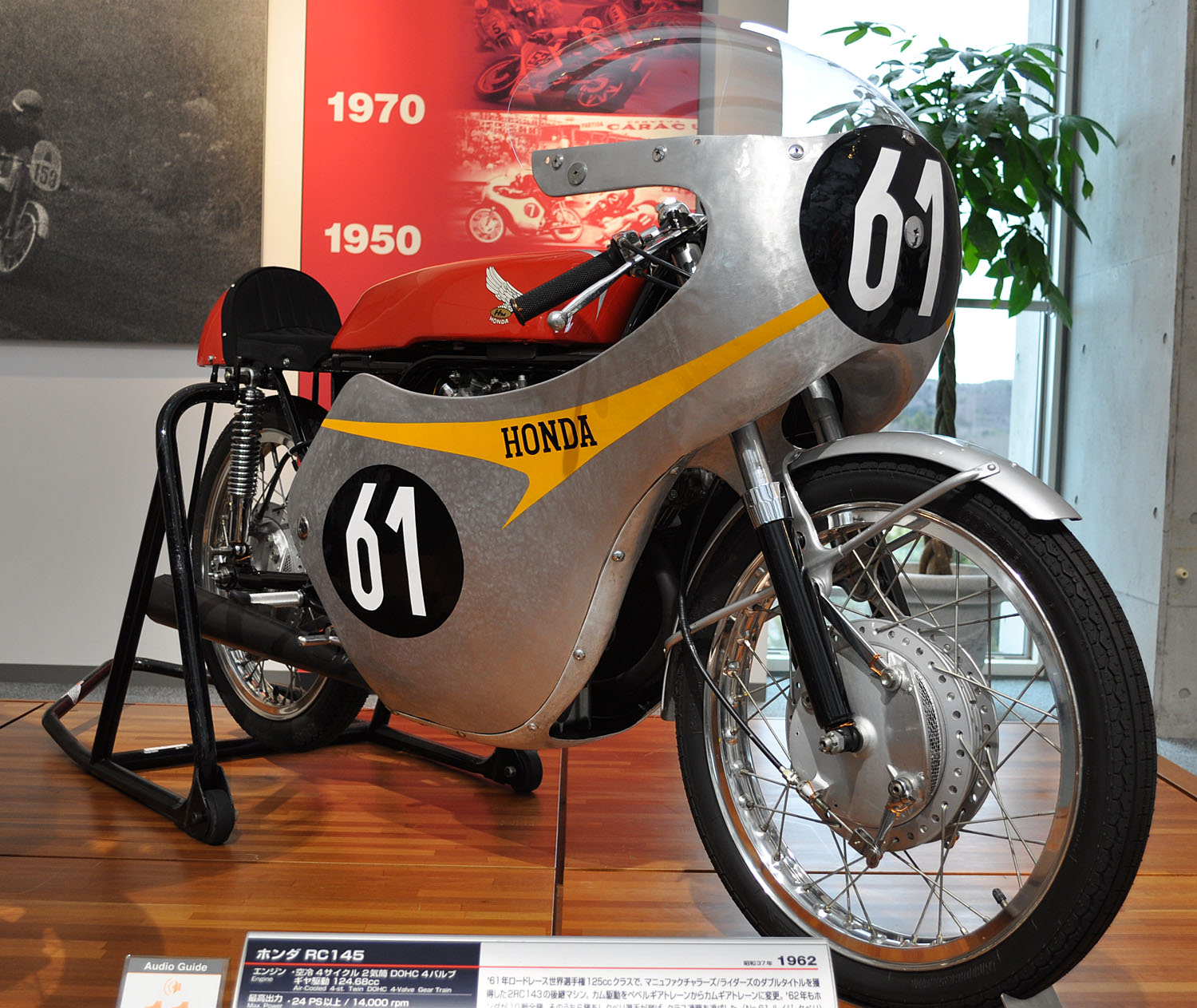 Honda RC143 (Luigi Taveri, 1962)